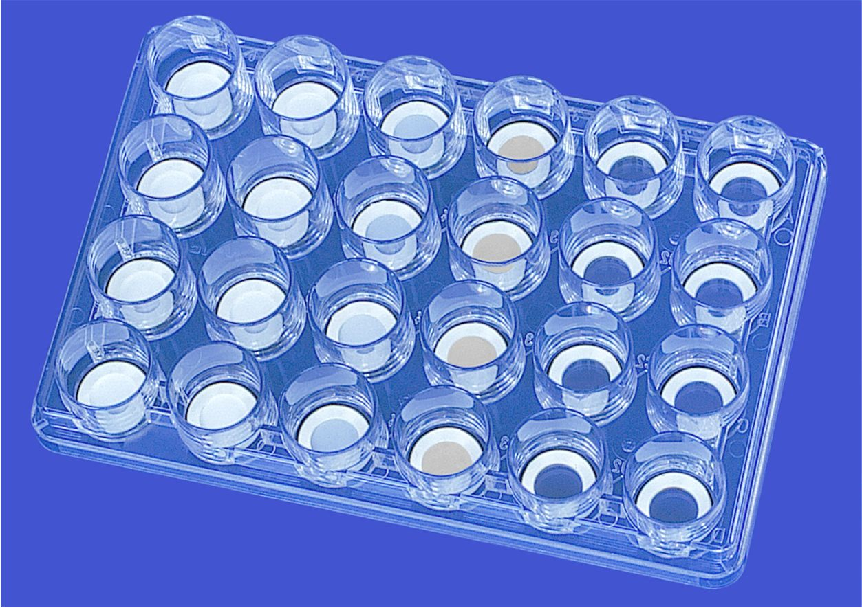 Minusheets in a 24 well culture plate